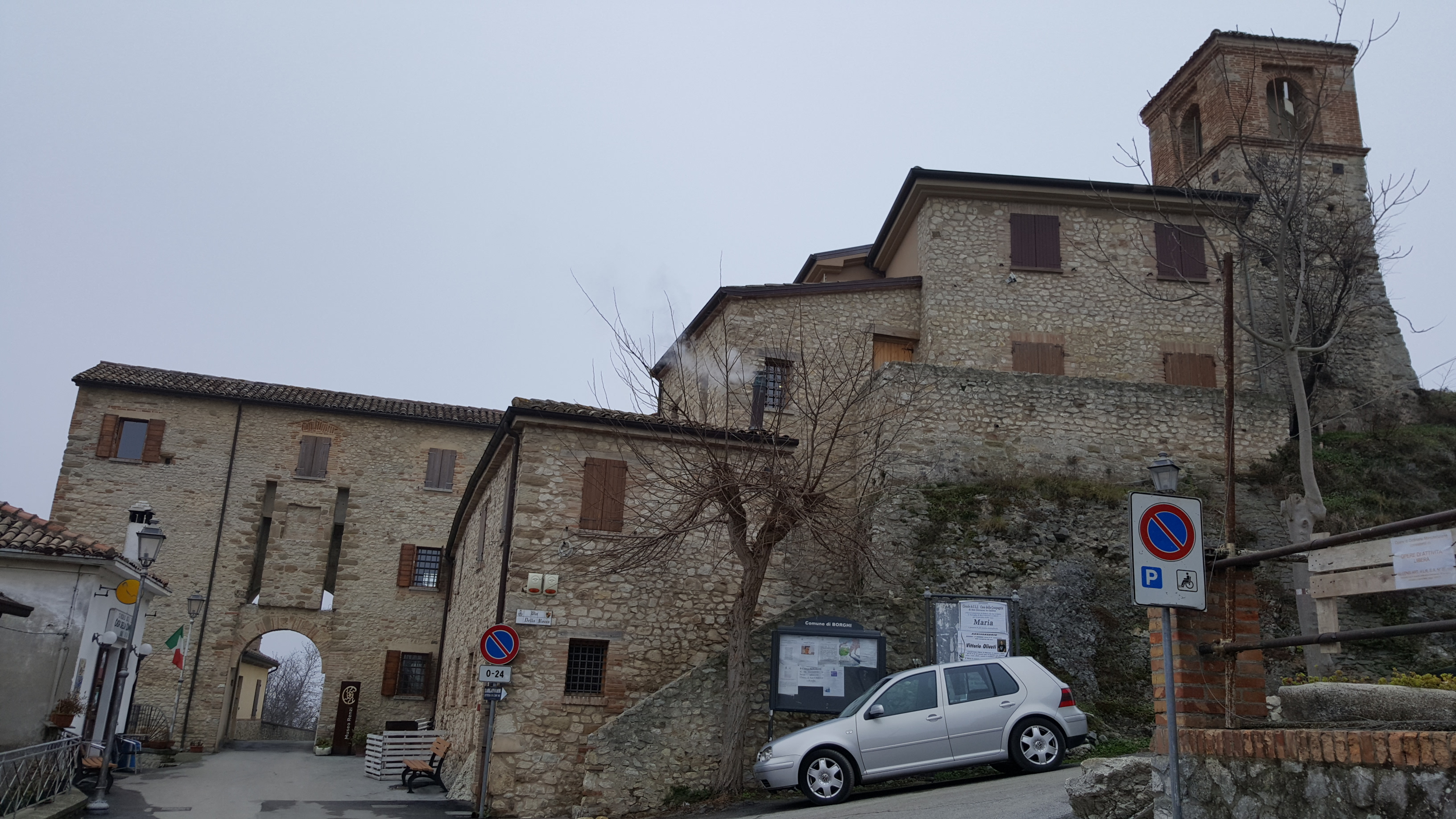 This is a photo of a monument which is part of cultural heritage of Italy.